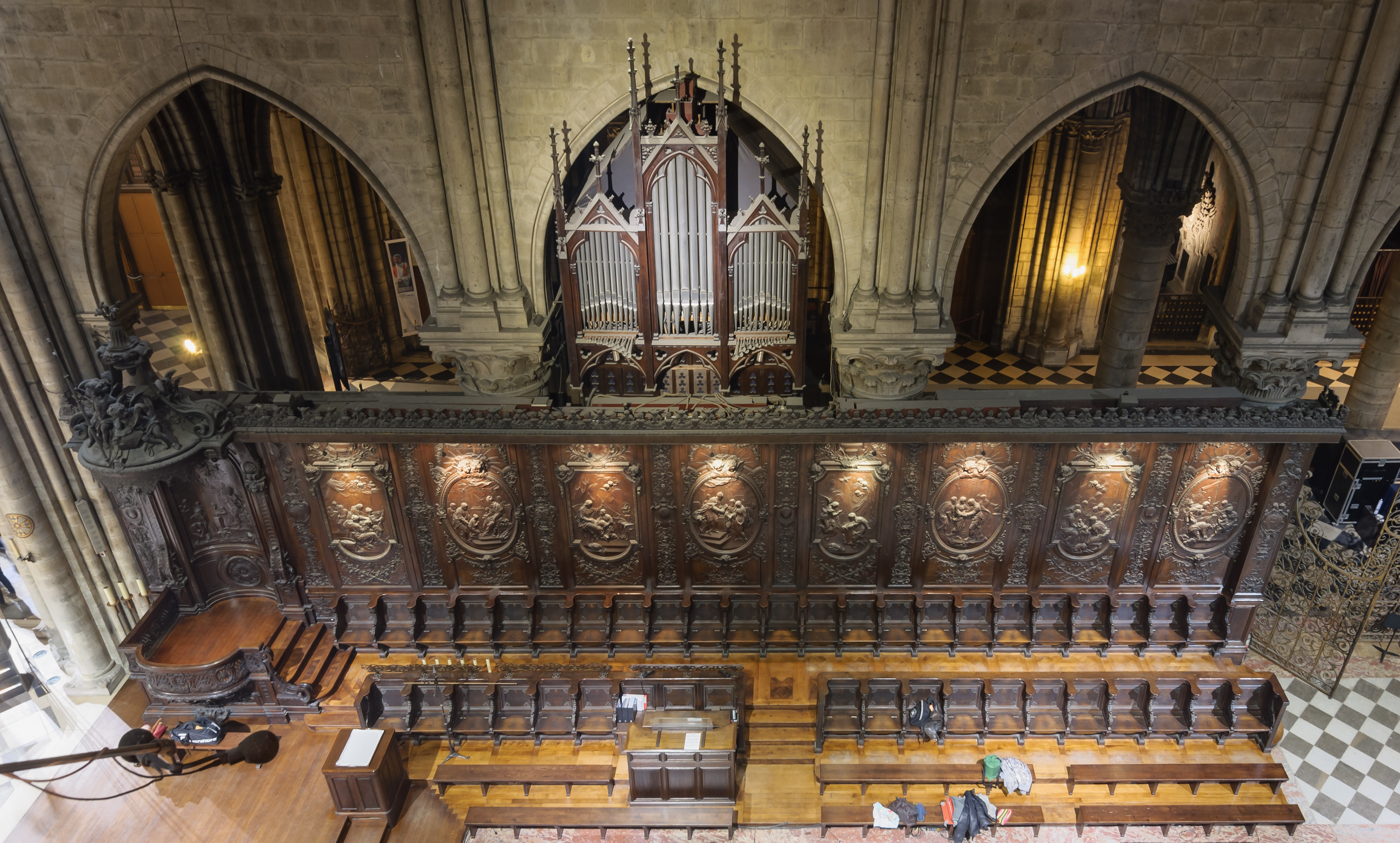 Notre Dame de Paris: the stalls designed by Robert de Cotte (18th-century) and the choir organ seen from the gallery.